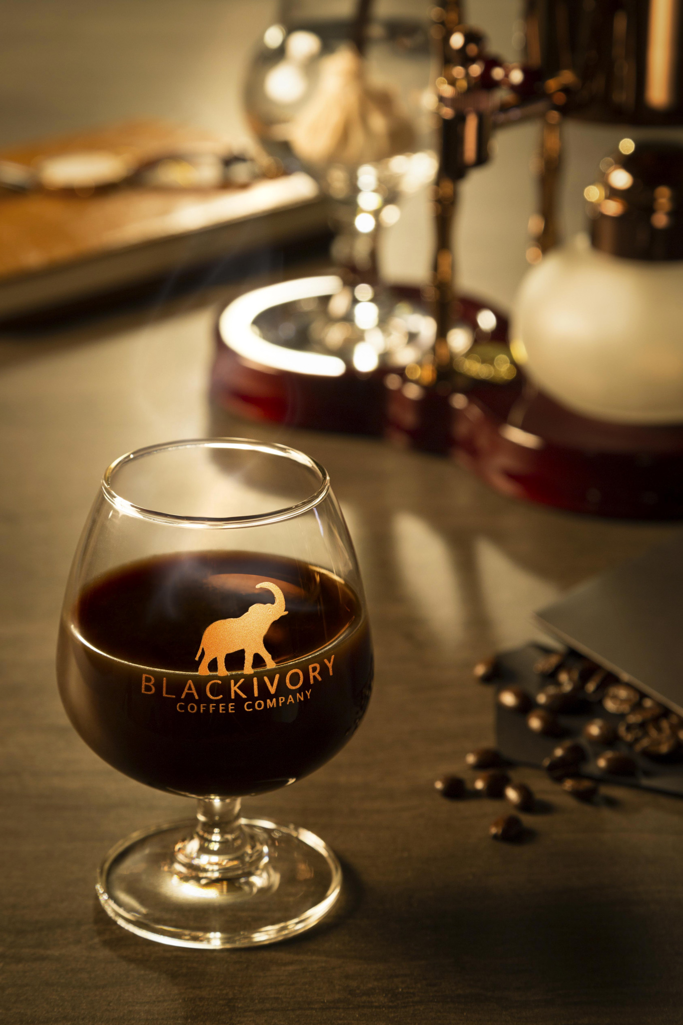 Black Ivory Coffee beans, in the process of making the coffee